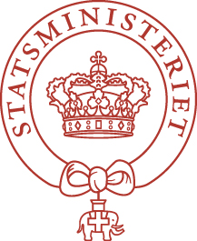 Seal/Logo of the Ministry of State of Denmark